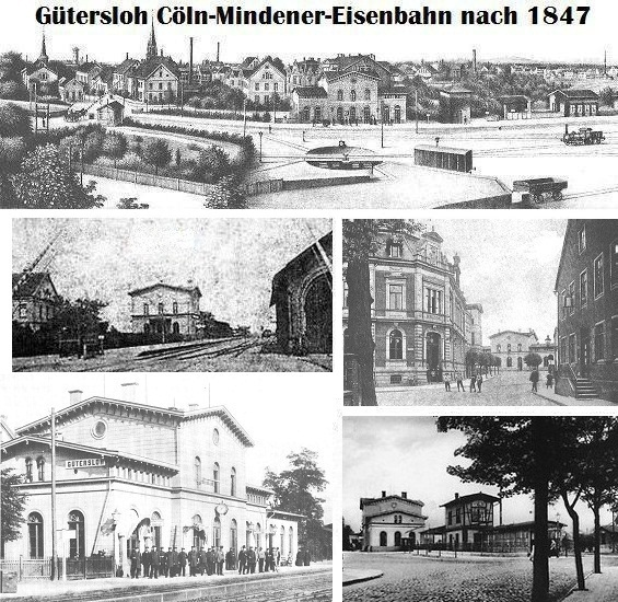 Guetersloh Station of 1847 at the Cologne-Minden Railway, historic pictures until 1900